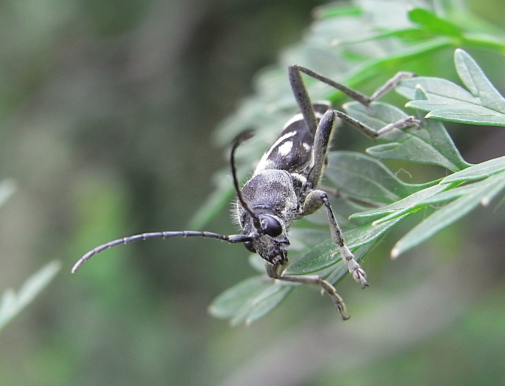 Chlorophorus figuratus from Matras-hills in Hungary at 2010-06-24 Ricoh R8